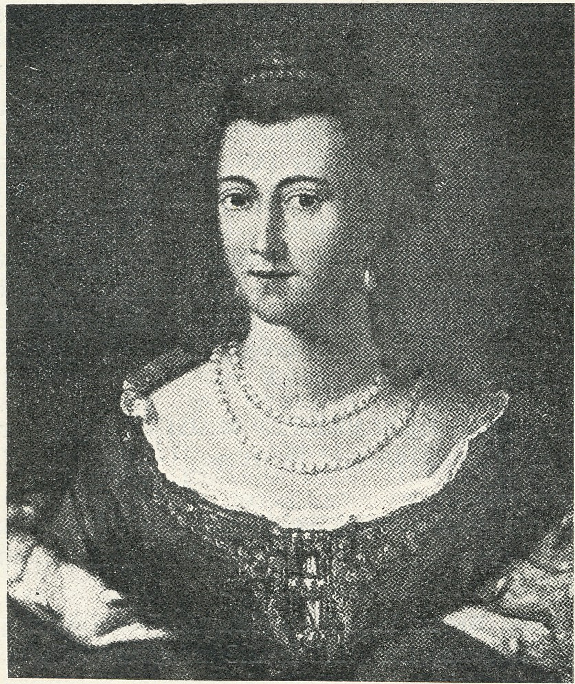 Elisabeth Magdalena of Pomerania. Duchess consort of Courland.